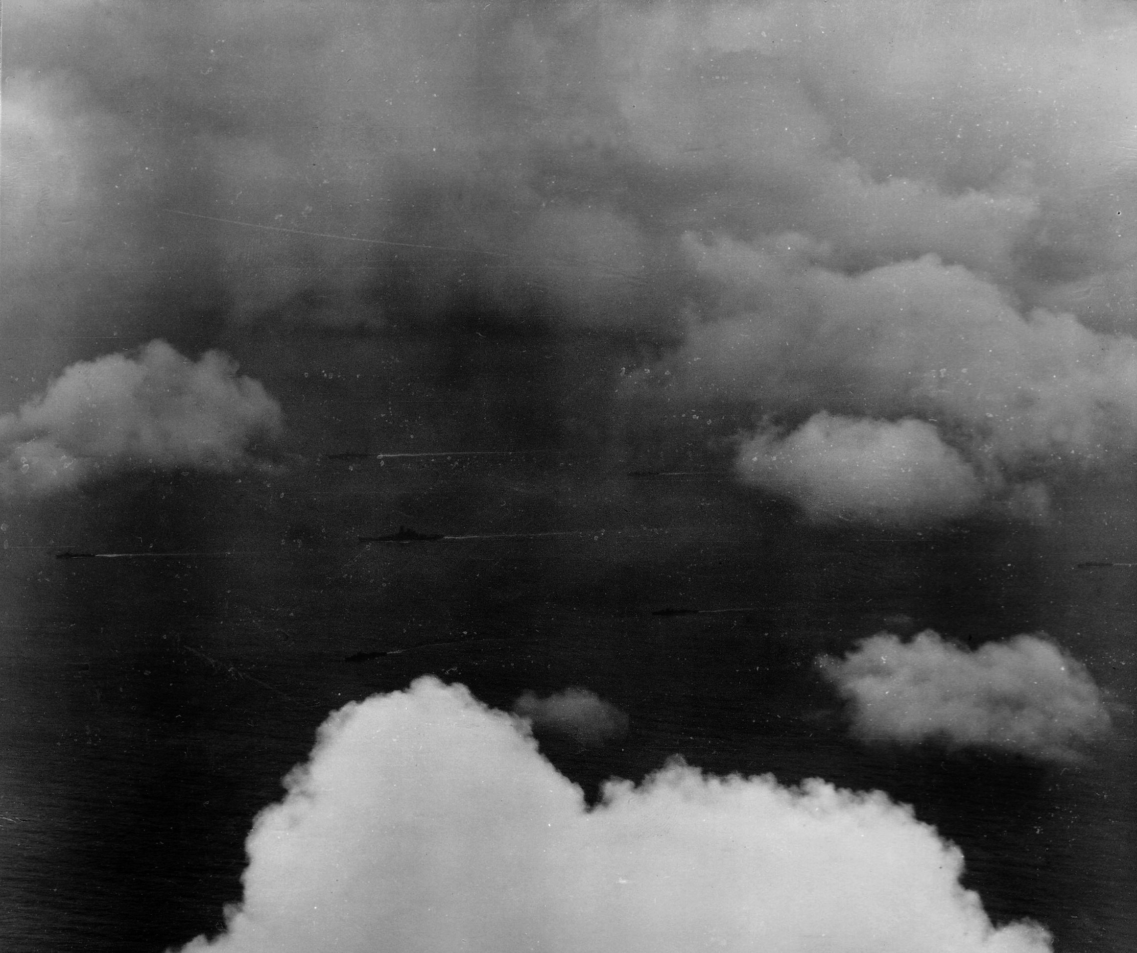 The Japanese battleship Yamato and her escorts steam towards Okinawa on 7 April 1945. The light cruiser Yahagi is steaming on her starboard side. The photo was taken from an aircraft from the aircraft carrier USS Essex (CV-9). The original caption states: "This photo indicates type of weather which handicapped both search and attack planes". The image is part of an album of photographs collected by Captain Carlos W. Wieber during his command of the aircraft carrier USS Essex (CV-9) during 1944-1945.